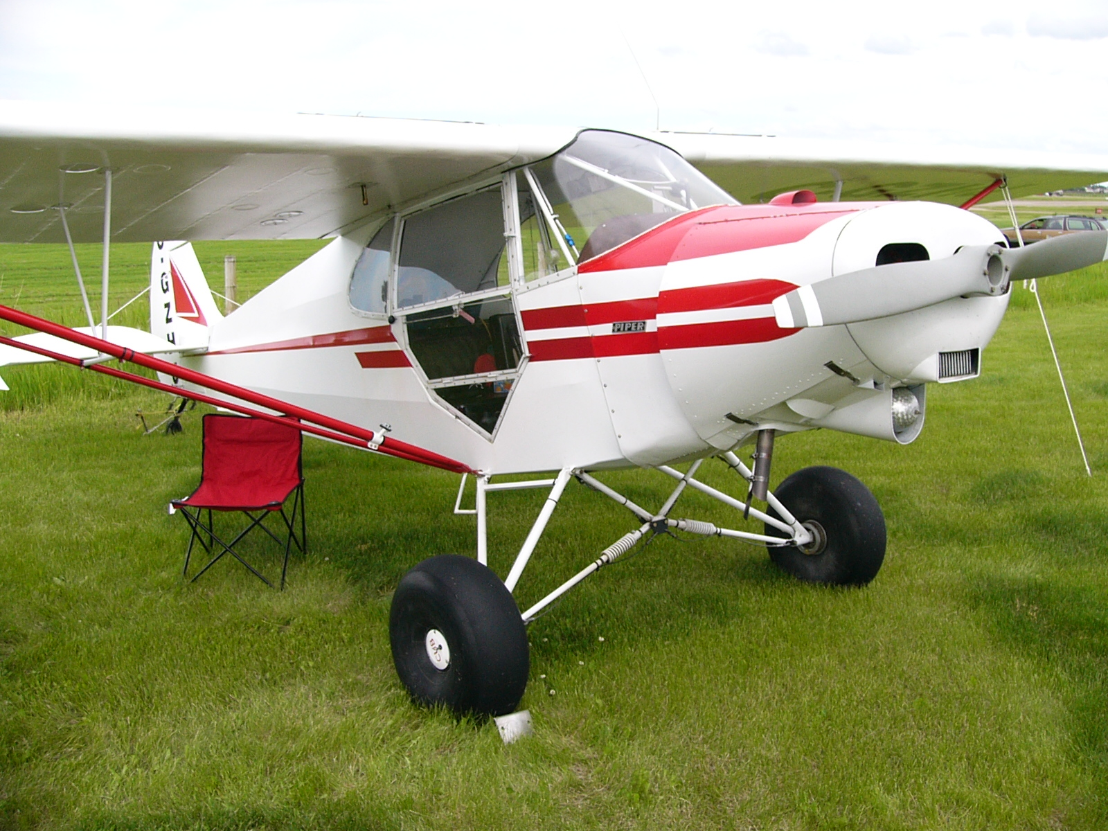 A Piper J-5 in the Canadian Owner Maintenance Category at the 2005 Canadianj Owners and Pilots Convention, Wetaskiwin, Alberta